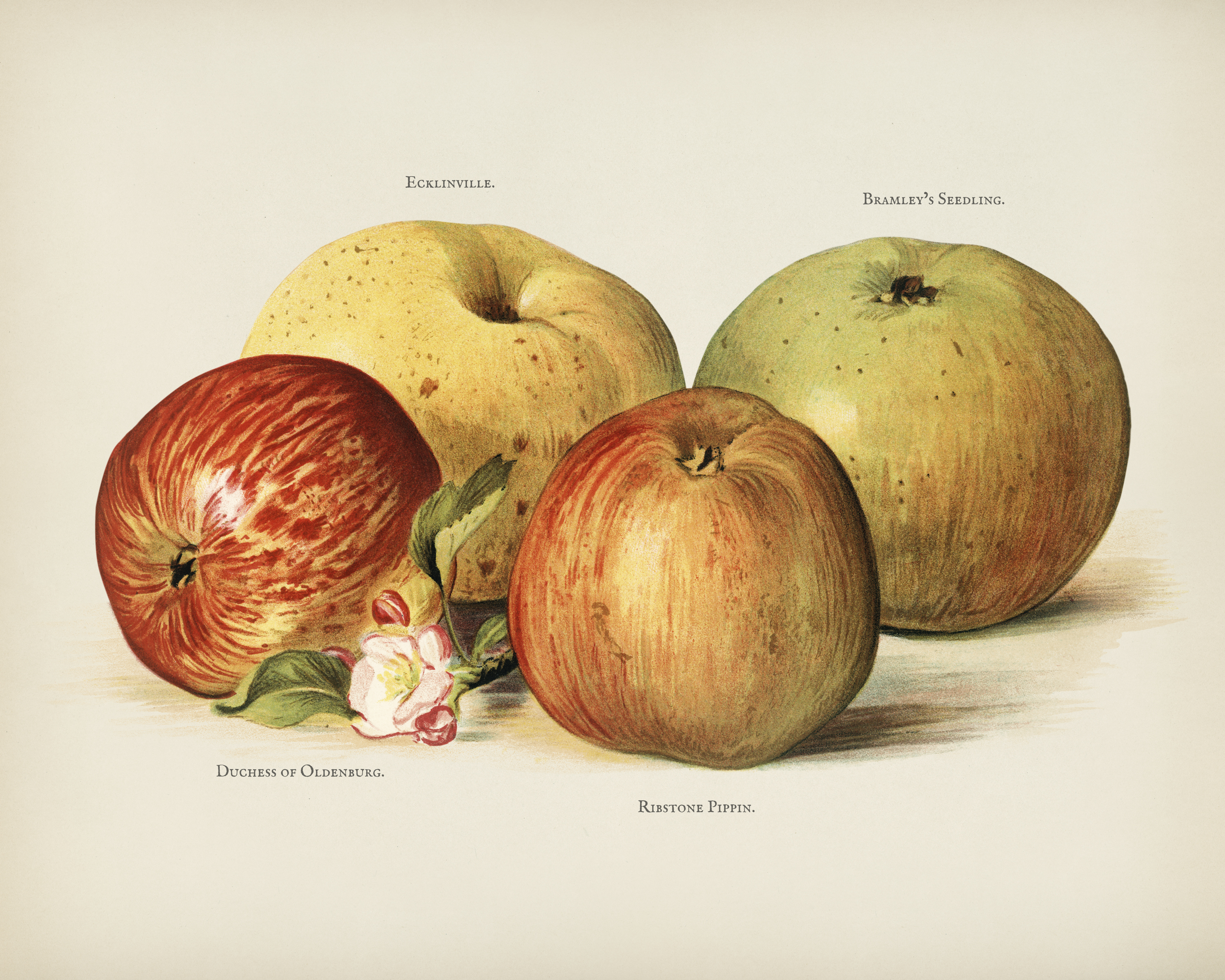 The fruit grower's guide : Vintage illustration of apple